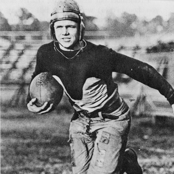 Georgia Tech football captain A. R. "Buck" Flowers c. 1920